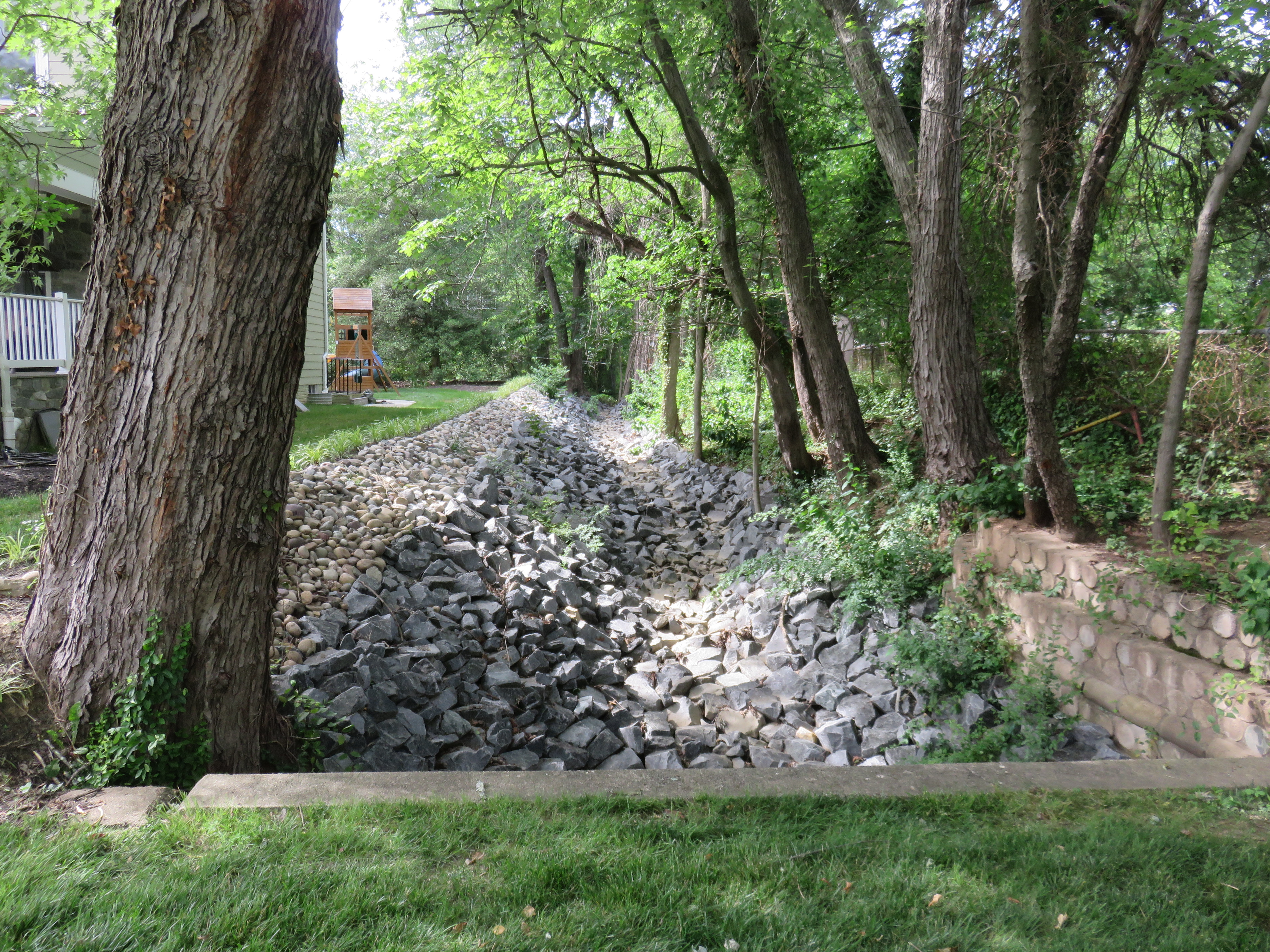 Looking upstream at Four Mile Run towards its source from Gordon Avenue in Fairfax County, Virginia in 2020